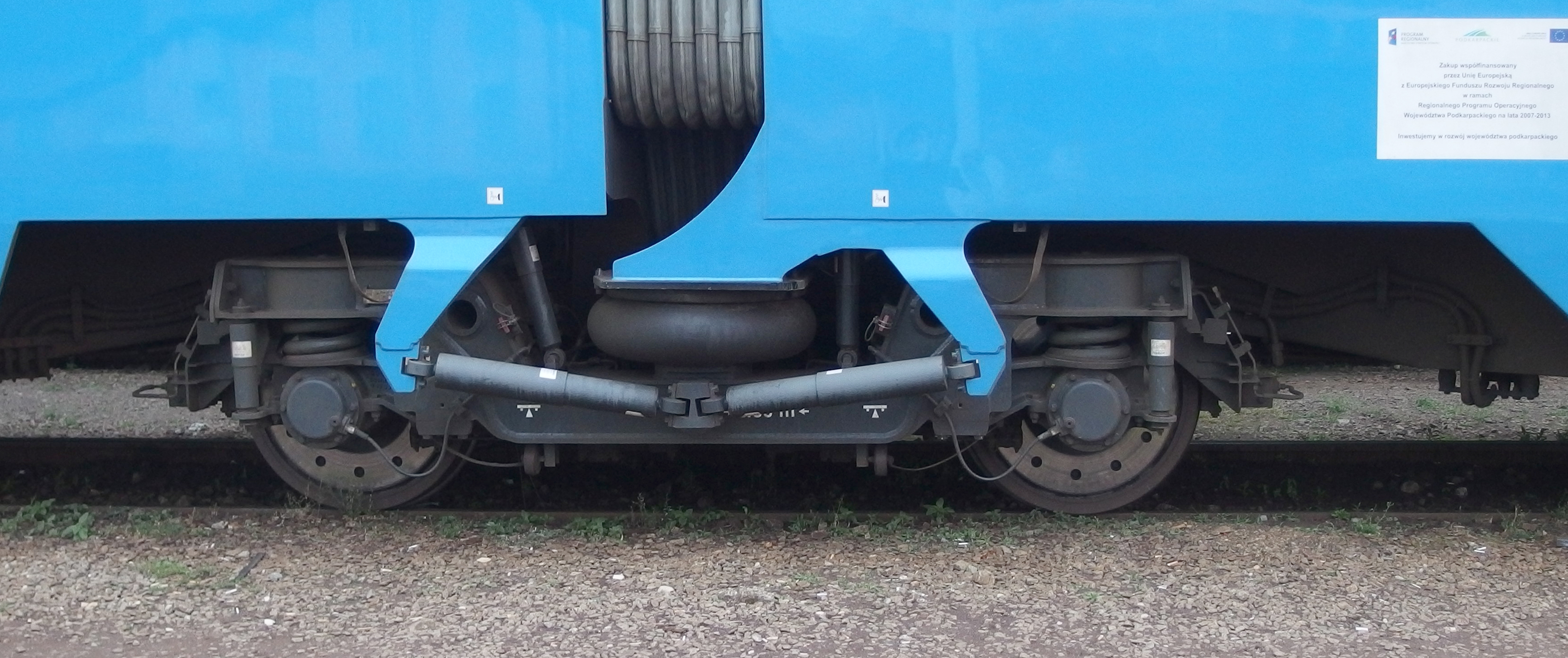 EN64-001 at Rzeszów railway station